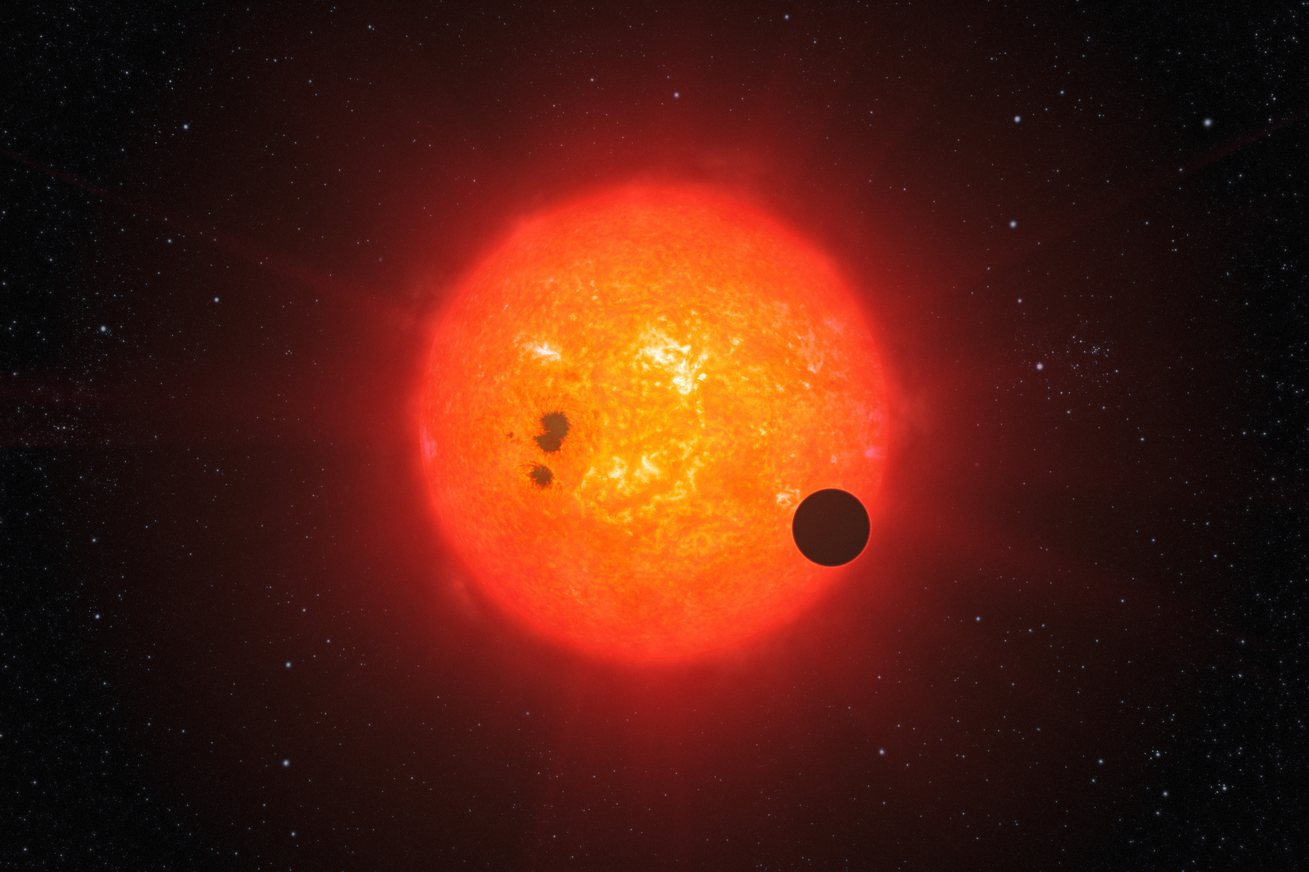 This artist’s impression shows how the newly discovered super-Earth surrounding the nearby star GJ1214 may look. Discovered by the MEarth project and investigated further by the HARPS spectrograph on ESO’s 3.6-metre telescope at La Silla, GJ1214b is the second super-Earth exoplanet for which astronomers have determined the mass and radius, giving vital clues about its structure. It is also the first super-Earth around which an atmosphere has been found. The exoplanet, orbiting a small star only 40 light-years away from us, thus opens dramatic new perspectives in the quest for habitable worlds. The planet, GJ1214b, has a mass about six times that of Earth and its interior is likely mostly made of water ice. It appears to be rather hot and surrounded by a thick atmosphere, which makes it inhospitable for life as we know it on Earth.